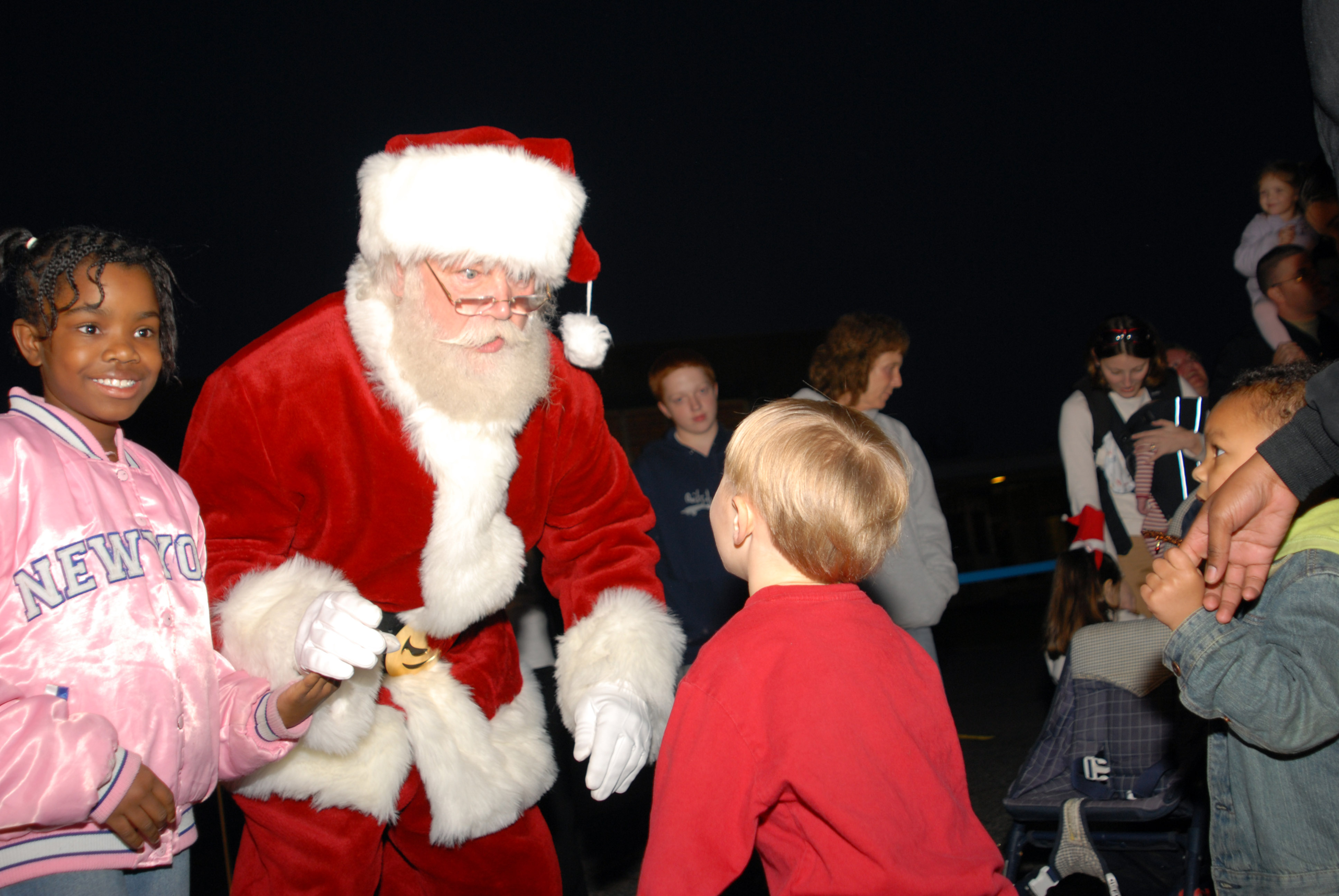 Norfolk, Va. (Nov. 27, 2006) - Santa greets his guest during Operation Christmas at the Army National Guard Armory. Operation Homefront, a member of America Supports You, organized the event. U.S. Navy Photo by Mass Communication Specialist Seaman Mandy McLaurin (RELEASED)